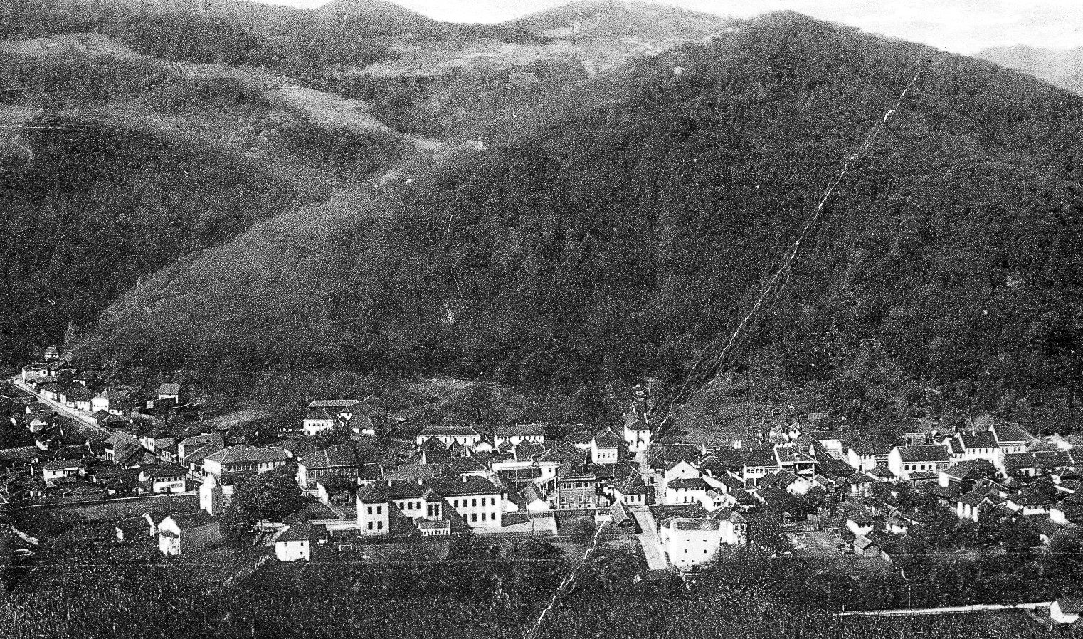 Postcard of Ivanjica, 1941 This media file is produced by Wikipedian in Residence in Category:Wikipedian in Residence at DARM in 2016.